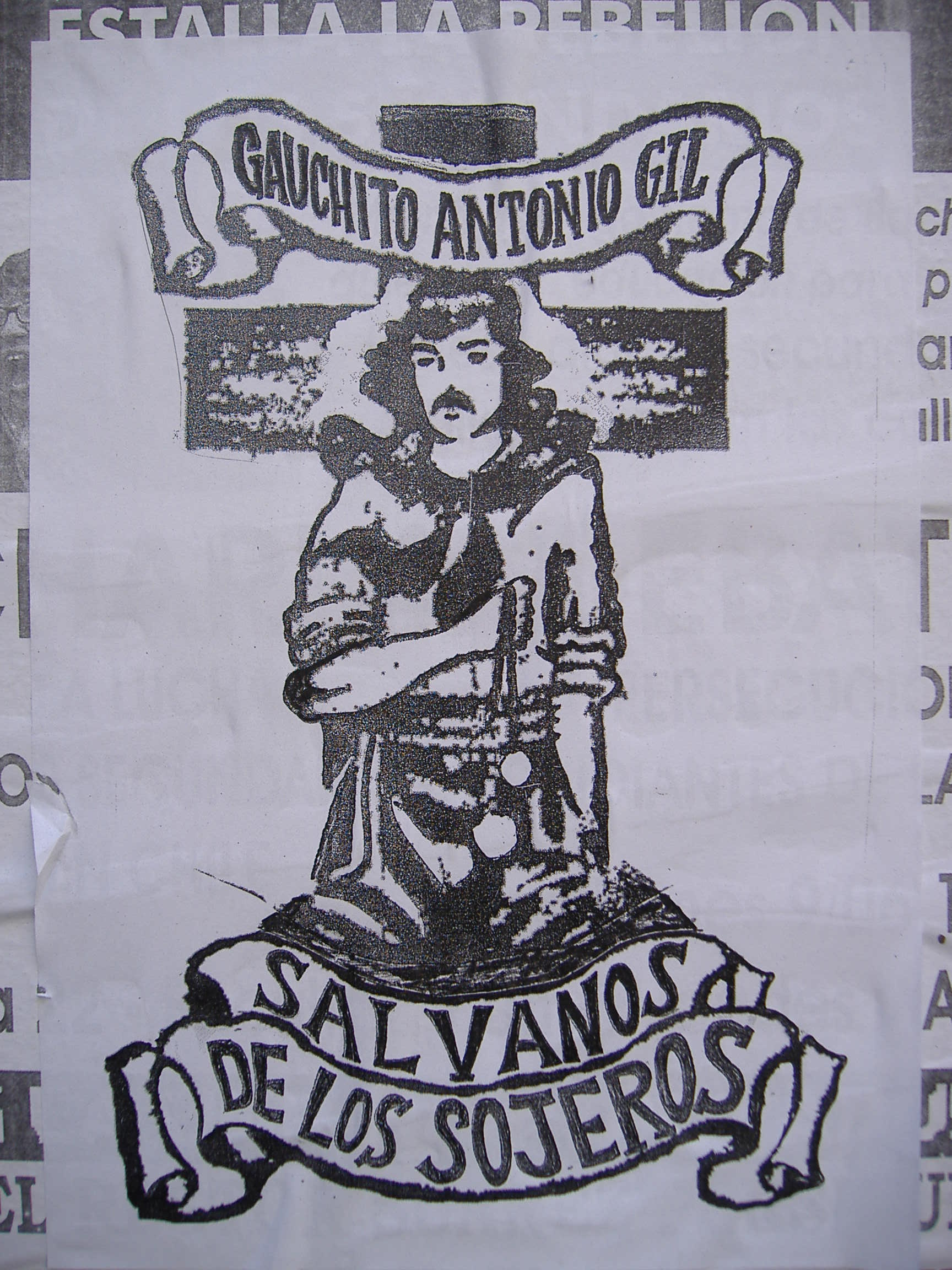 A poster showing the Gauchito Gil, a saint-like character in popular Argentine belief, in downtown Rosario. Half-jokingly, it request that the Gauchito "save us from soybean farmers". Soybean being well-priced, it discourages other crops as well as cattle farming, threatening biodiversity (besides being transgenic).